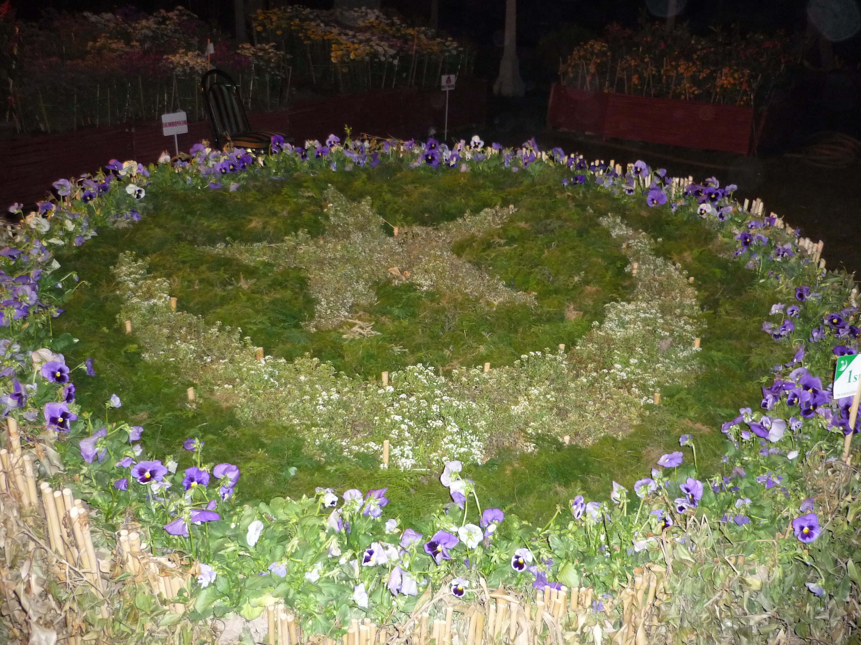 Flag of Pakistan made by flowers in an exhibition.